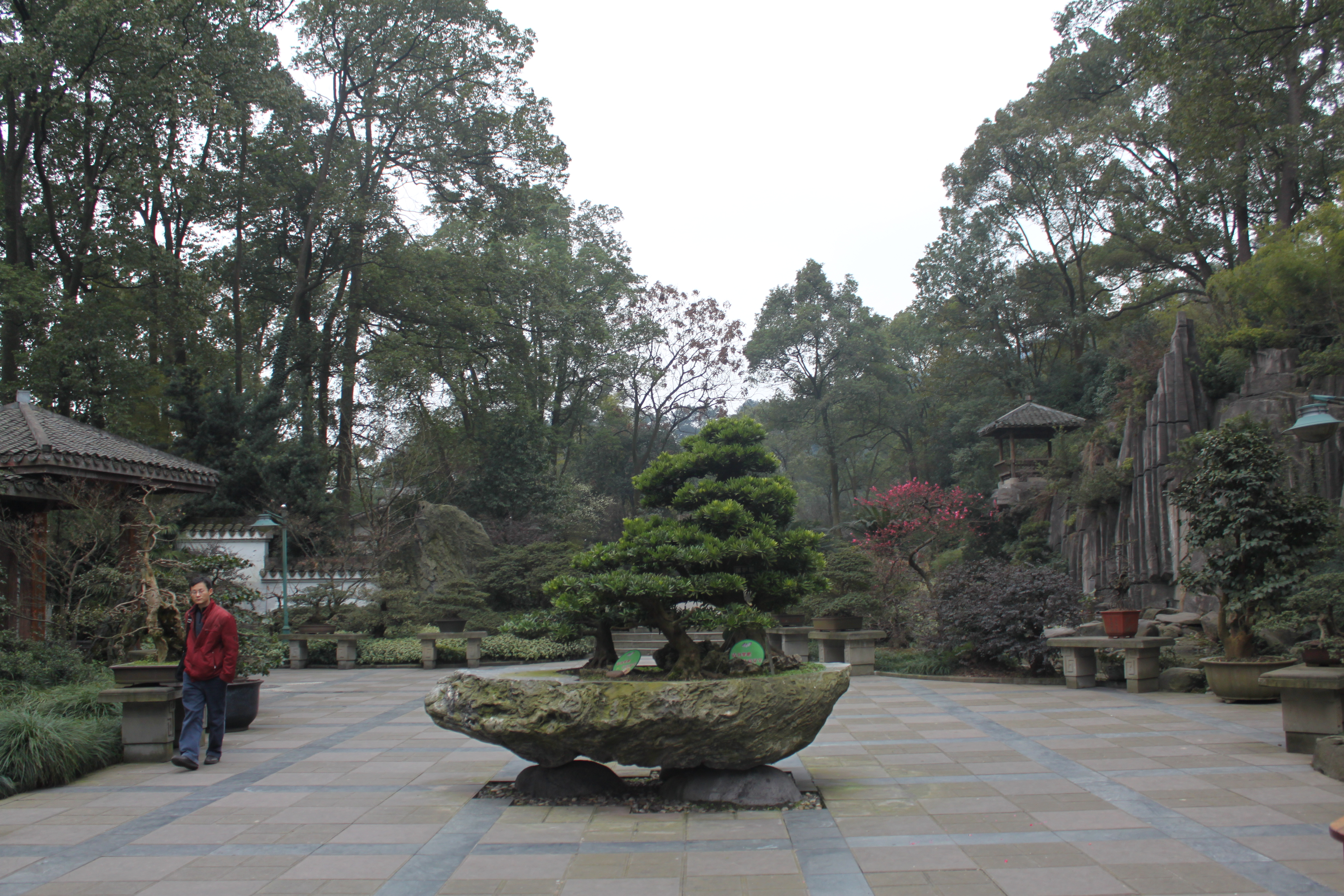 Bonsai Garden in Nanshan Botanical Garden, Chongqing China.